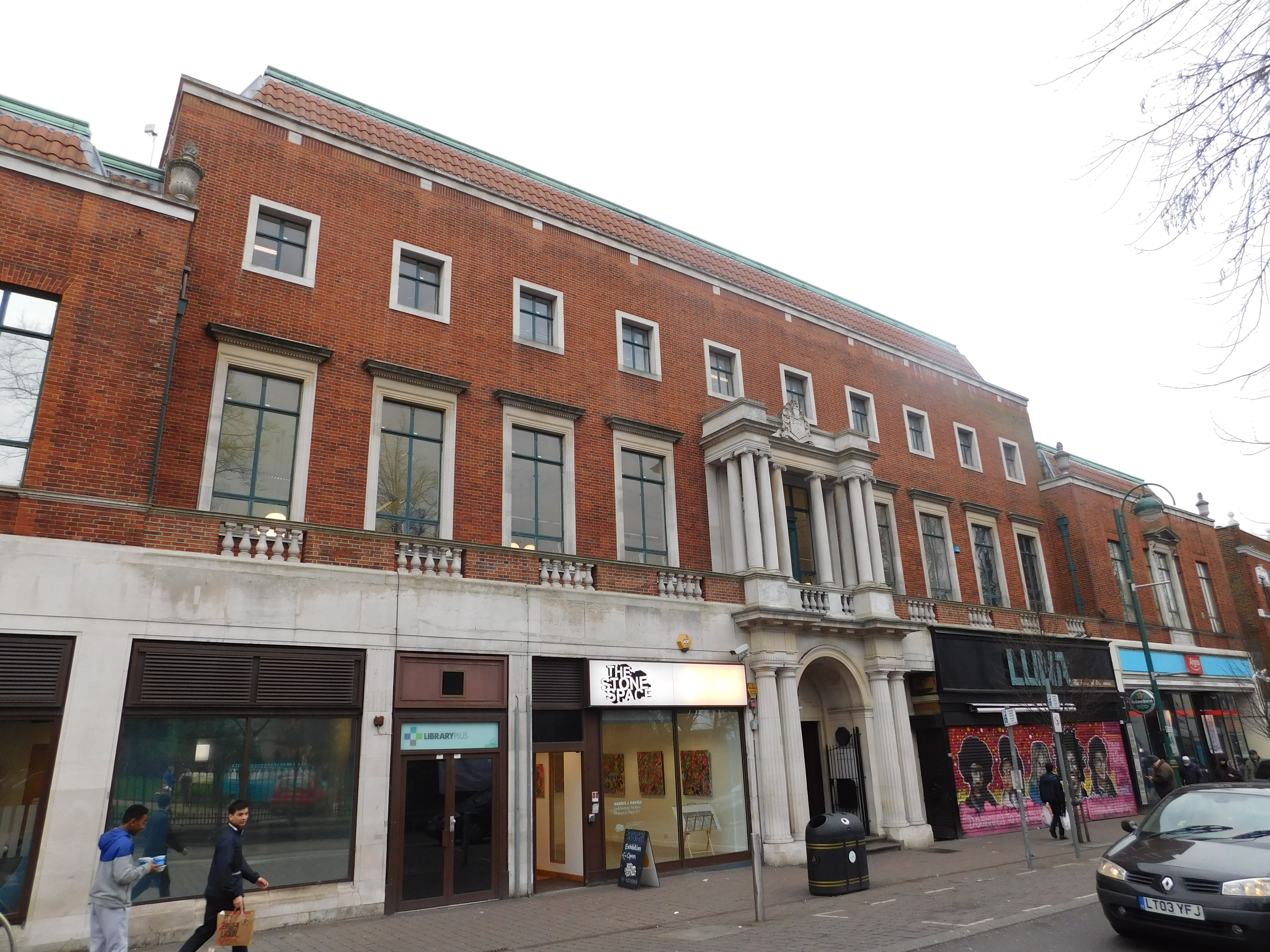 Leytonstone Library Wikidata has entry Q17531944 with data related to this item.